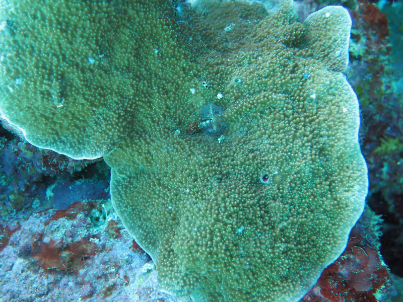 A colony of Montipora aequituberculata about 60 cm wide on a vertical wall at Cod Hole near Lizard Island